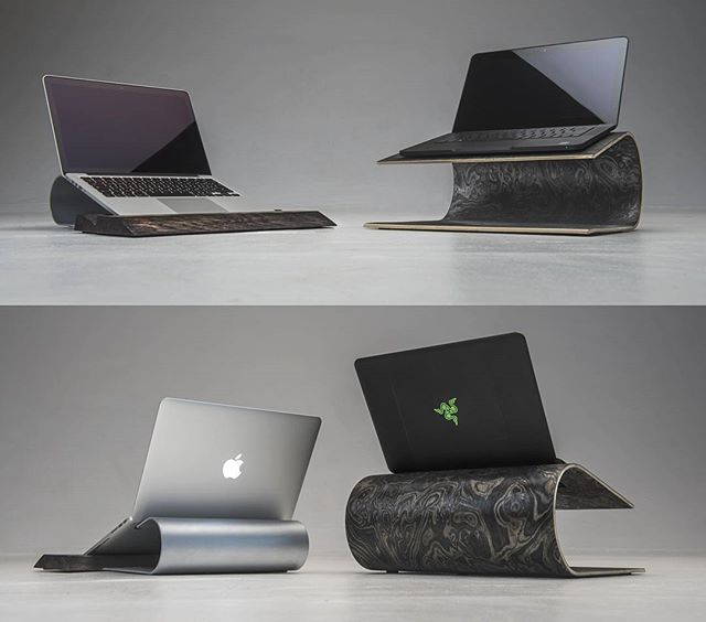 Christopher Nõmmann computer stand